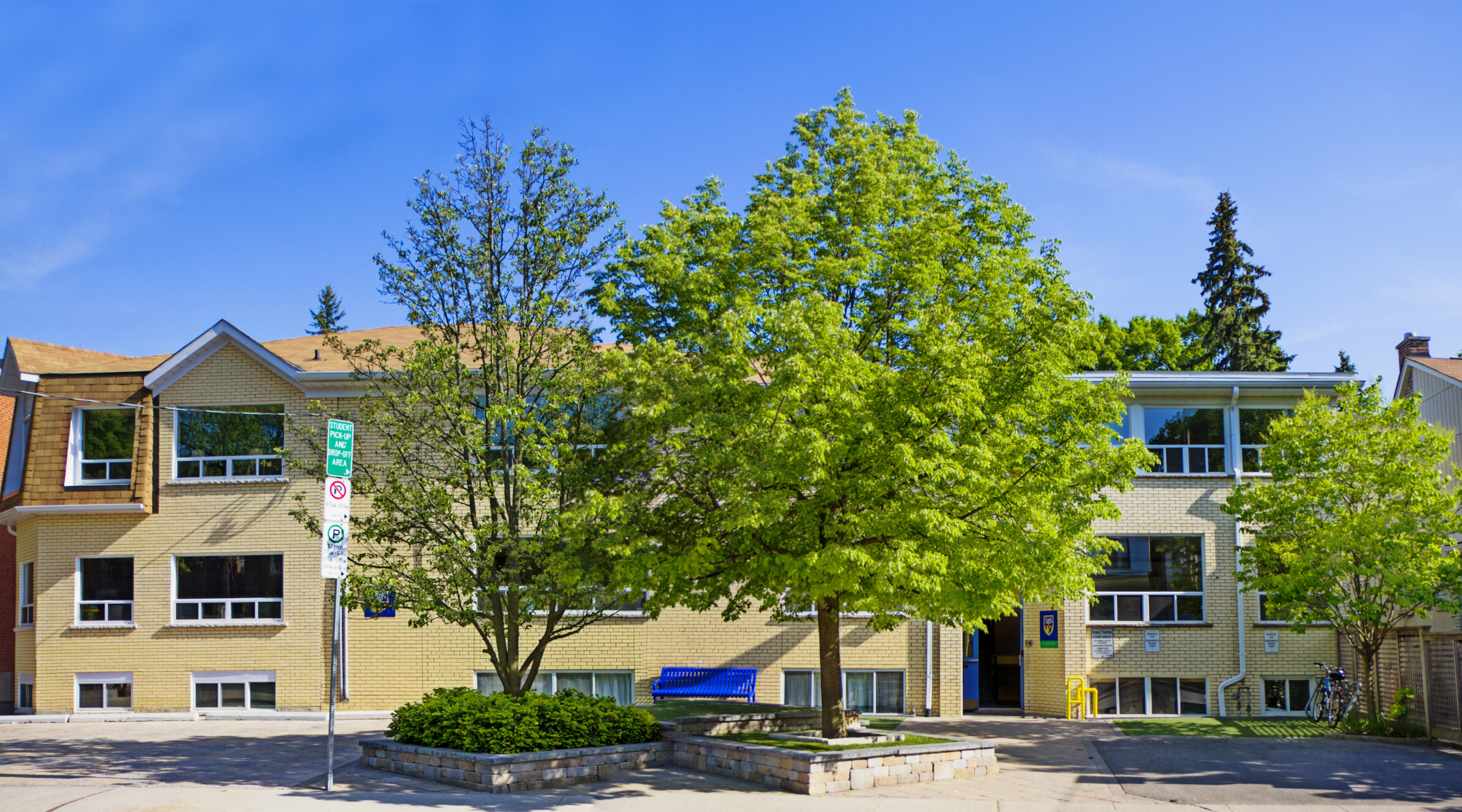 Photo showing completed 2012 expansion of Sunnybrook School (Toronto)